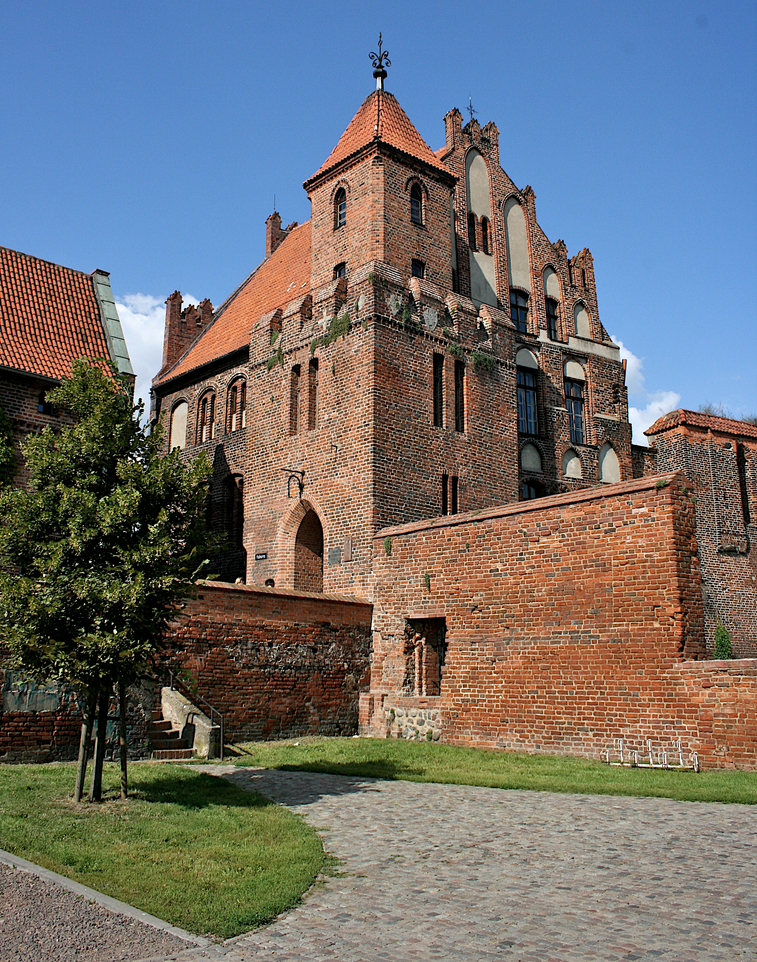 Gothic St George Guildhall, Toruń.